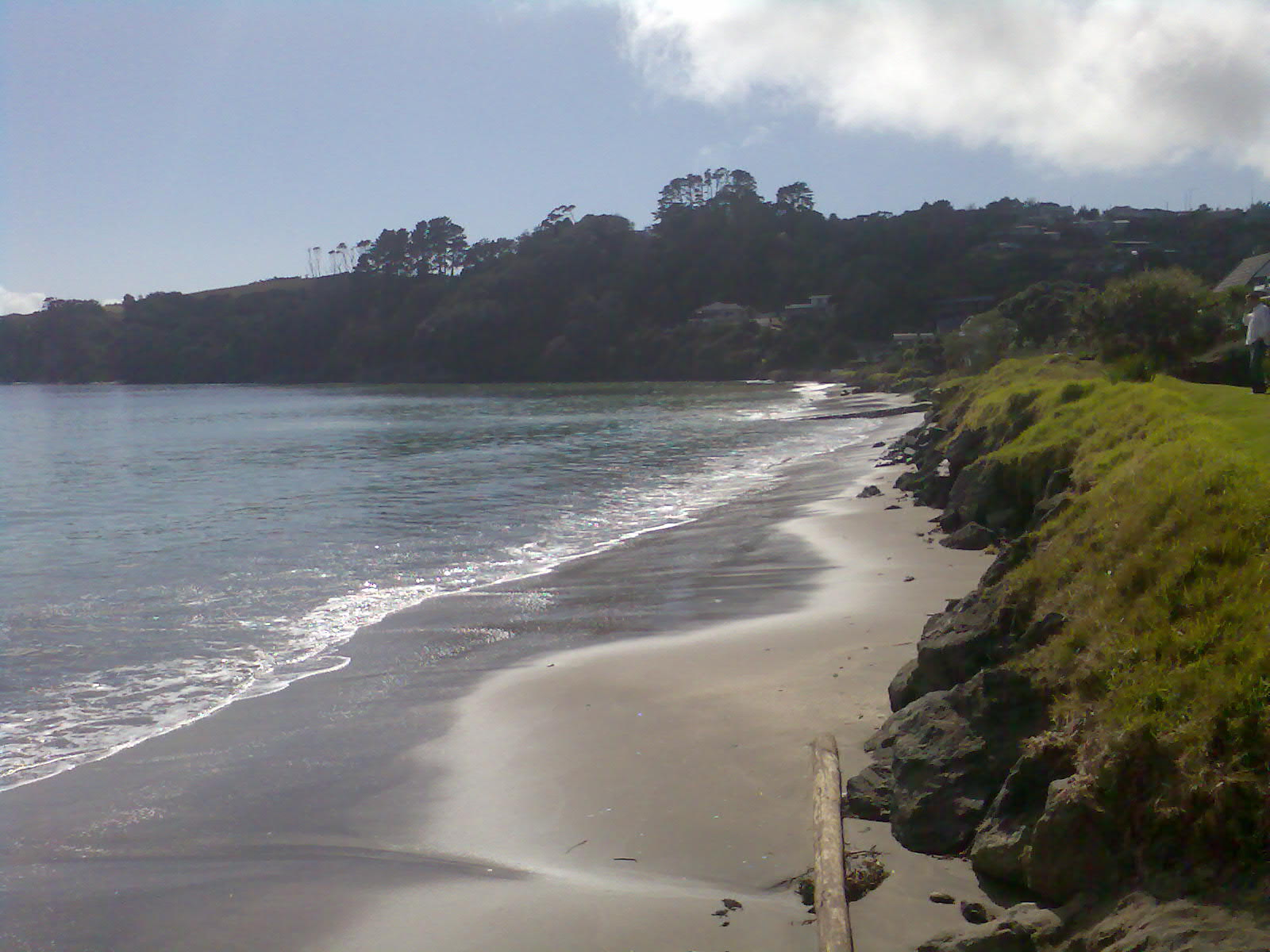 Tindalls Beach on the Whangaparaoa peninsula late Winter 2008